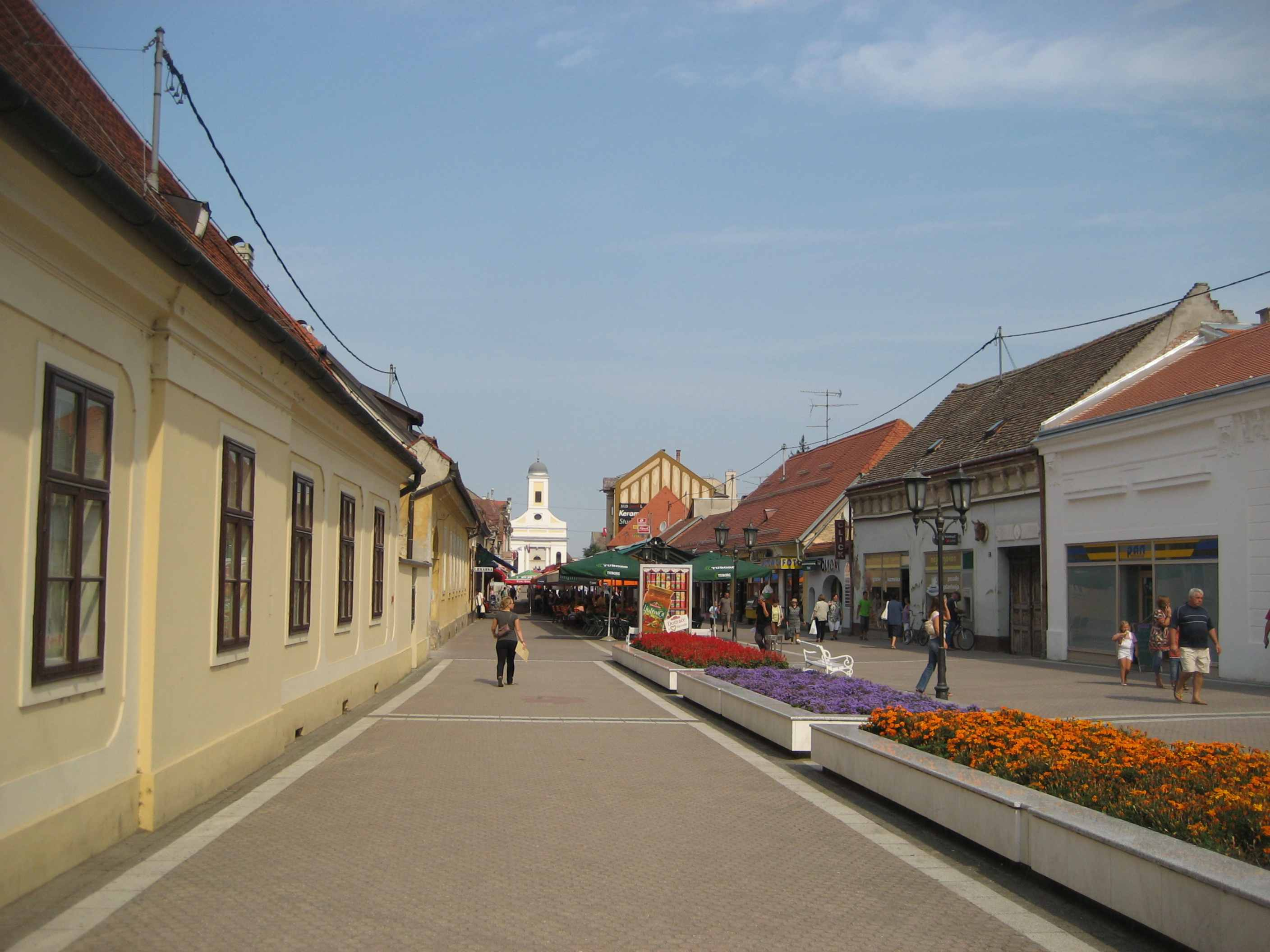 Dakovo-2, Croatia